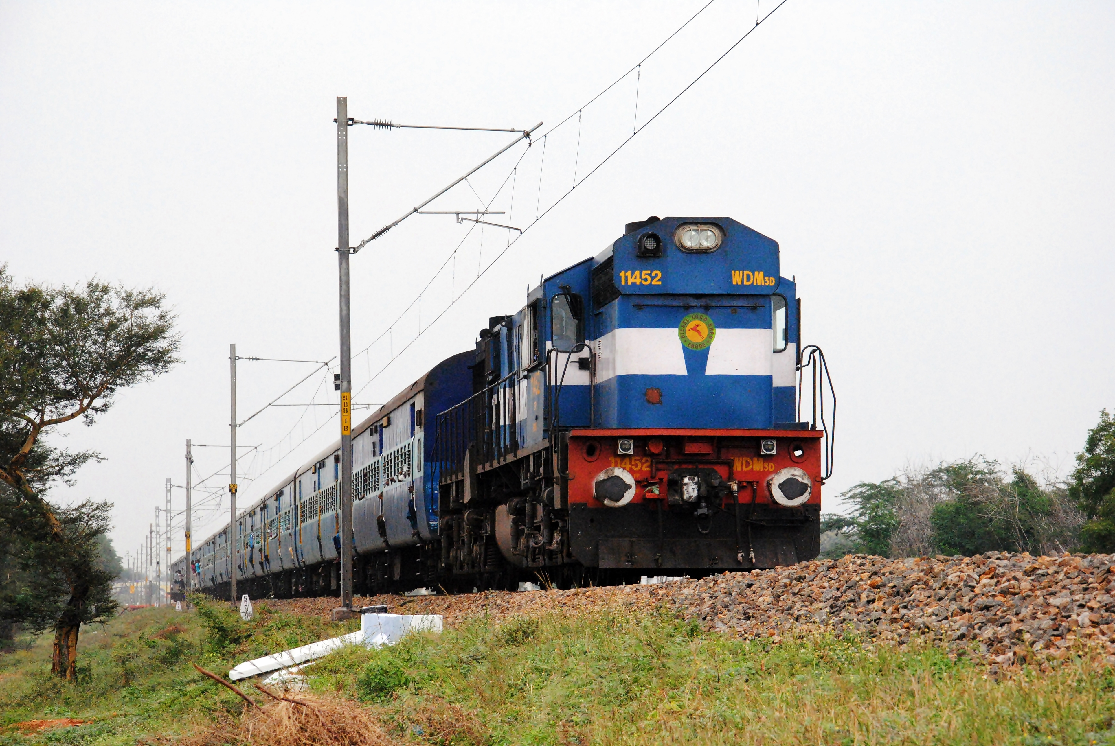 WDM-3D 11452 an Indian Locomotive of shed Erode, hauling a passenger train away from Madurai towards Tiruenlveli.